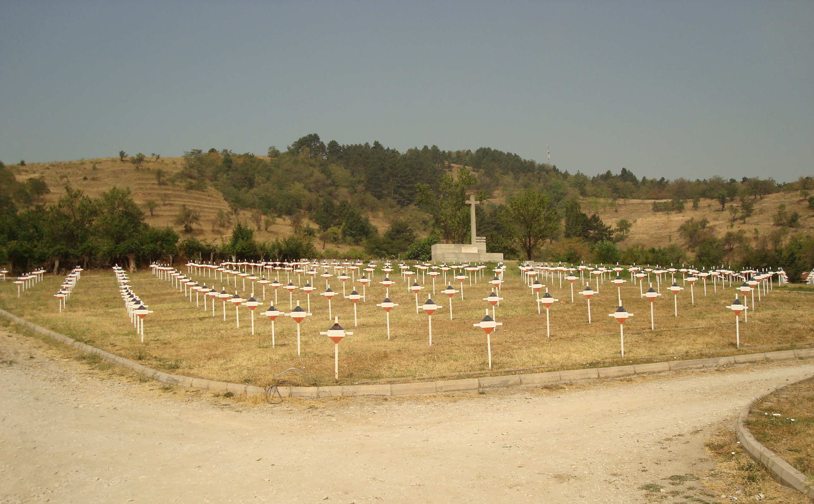 Serbian military cemetery from Balkan wars and 1 WW in Bitola, Macedonia.